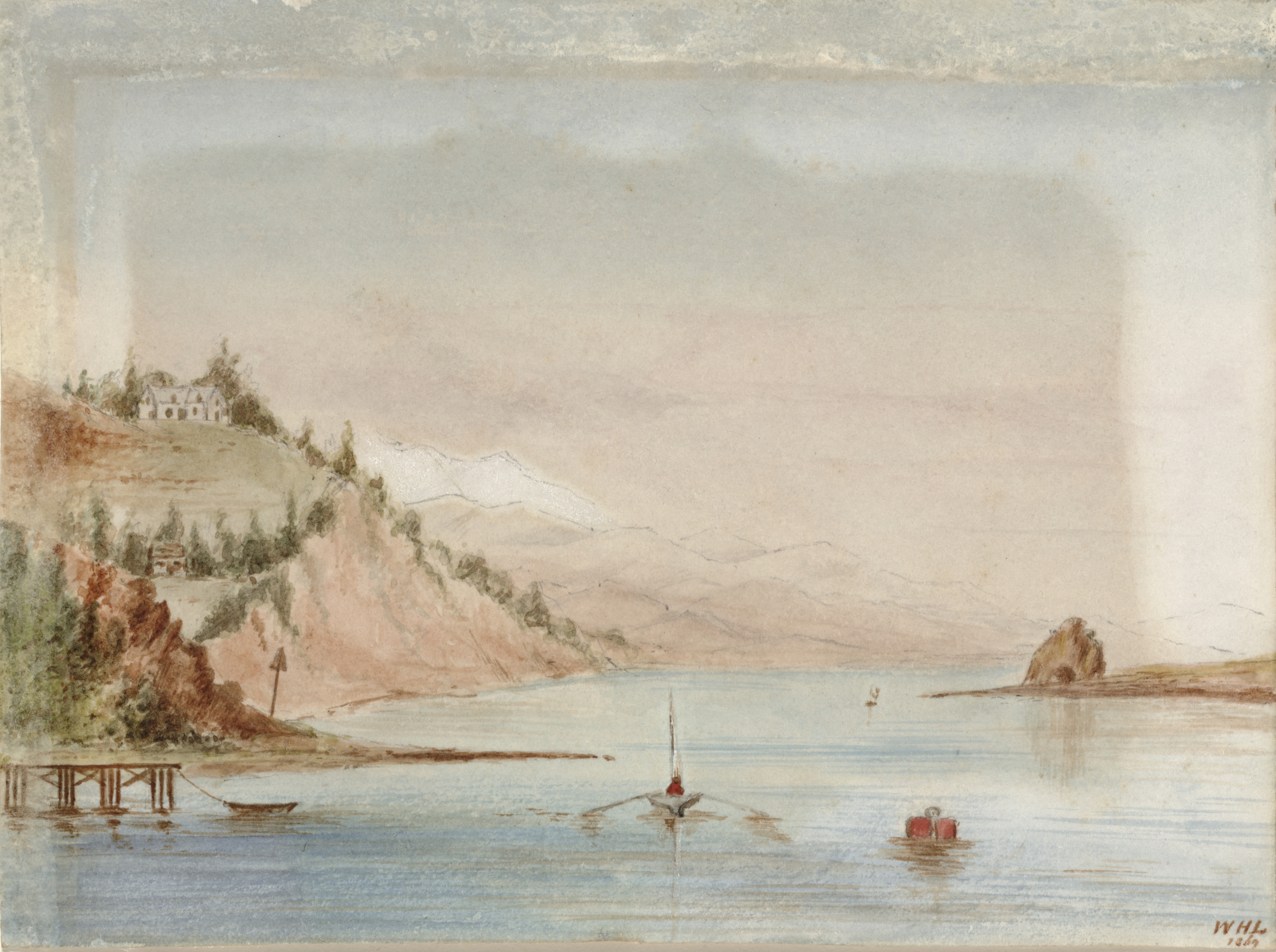 Port Nelson with Arrow Rock. Shows a view looking into an inlet, with Arrow Rock on the right. There is a large house high on the cliff at the left, a jetty in the left foreground, a small rowboat in the centre foreground, and a red buoy at the right. The description on the backing board of the clifftop house as Mr Hoggard's is incorrect, as is the attribution to Heaphy. Both depended upon Wellington being the location of the scene depicted.